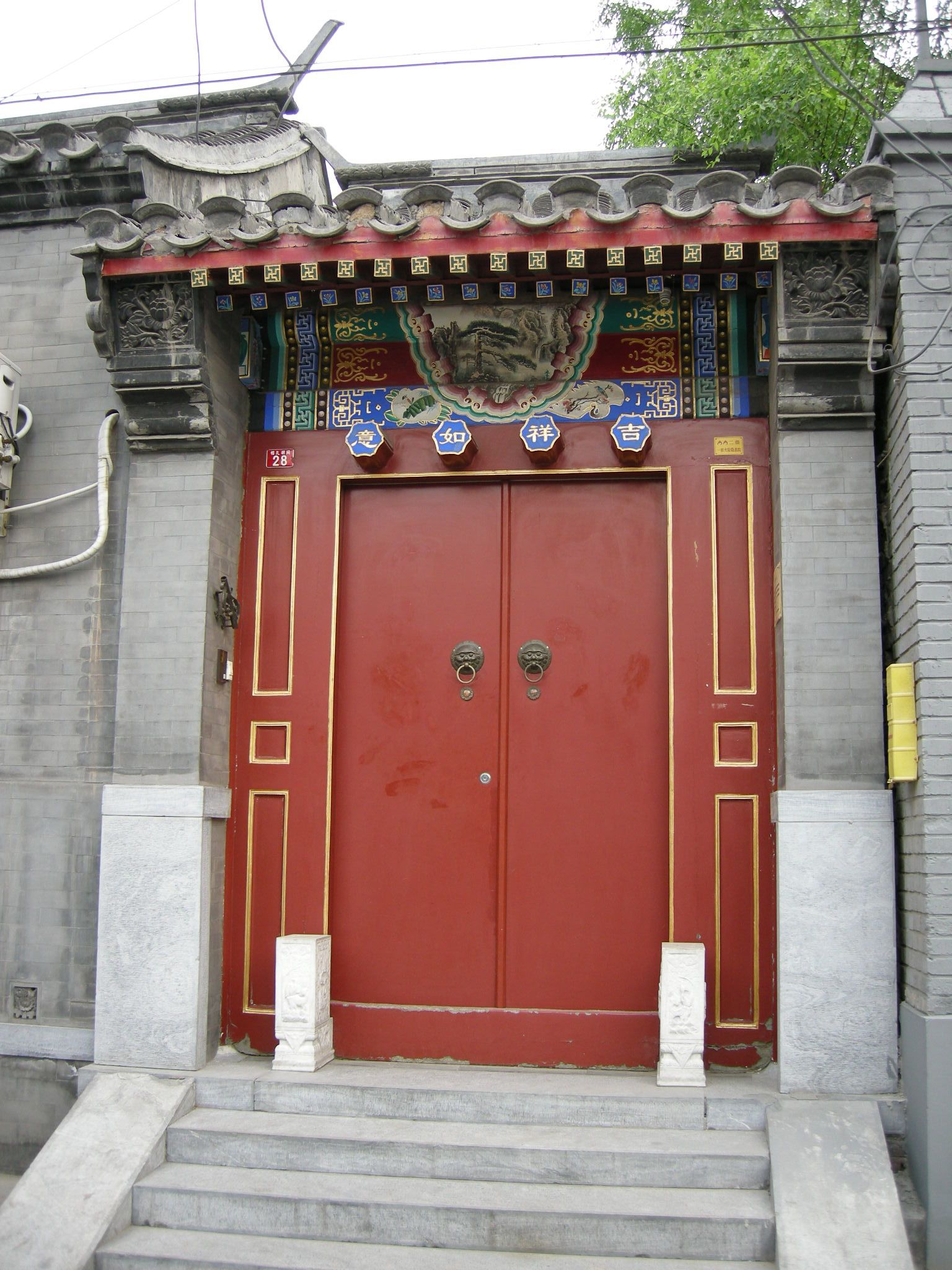 A front door of a siheyuan courtyard house in a hutong of the dongcheng district in Beijing.帽儿胡同28号